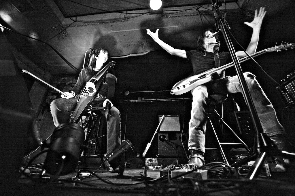 Melaniejane and Pat MacDonald taken 2009 at Davey's Uptown in Kansas City.